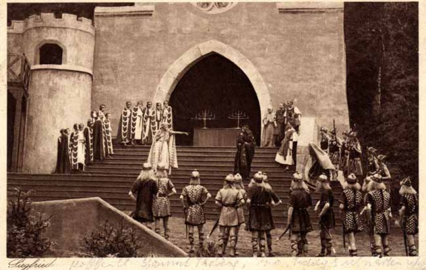 Landesheimatspiele der Provinz Westfalen Witten-Hohenstein 1928: Siegfried